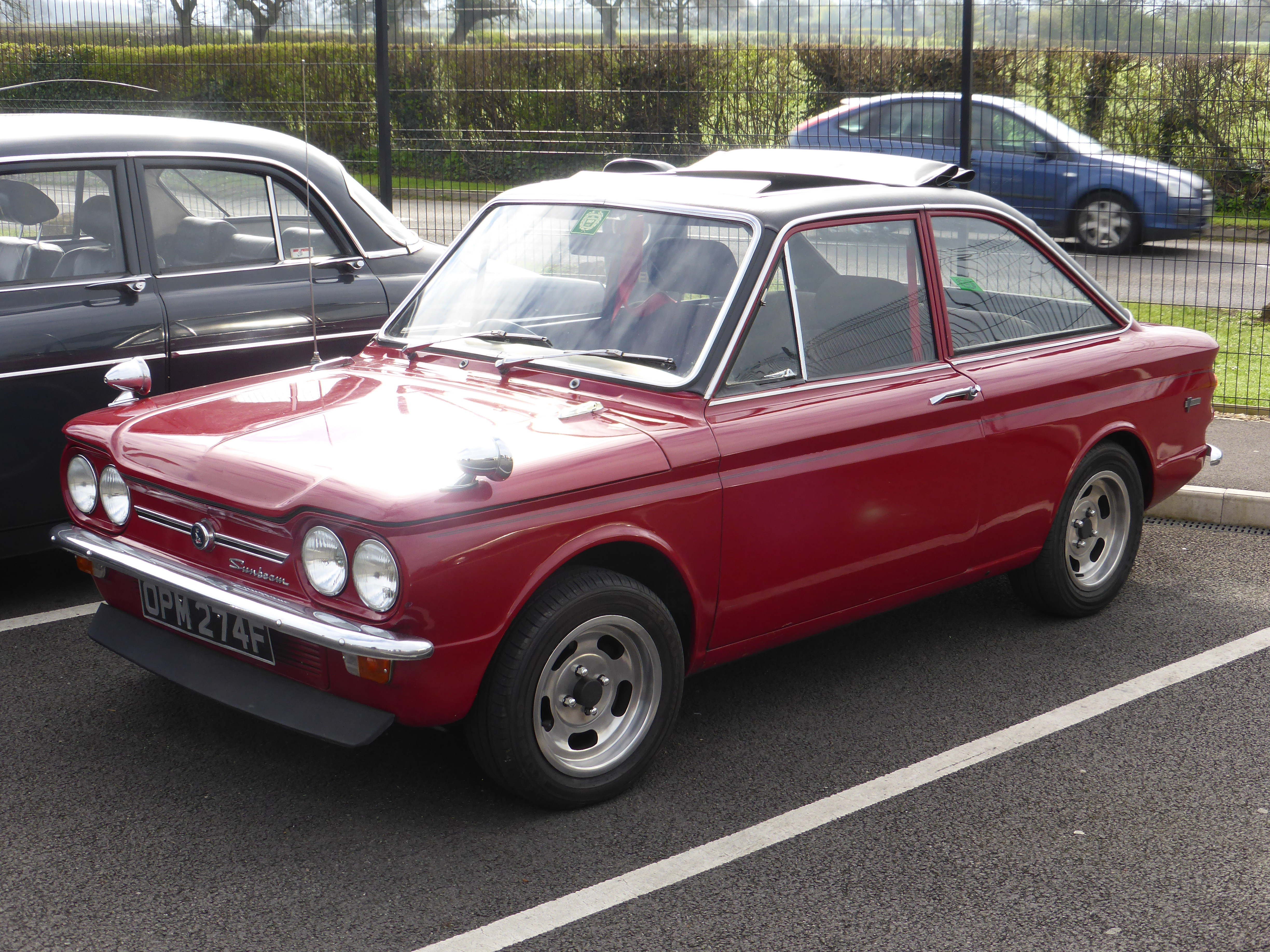 Haynes International Motor Museum Breakfast Club